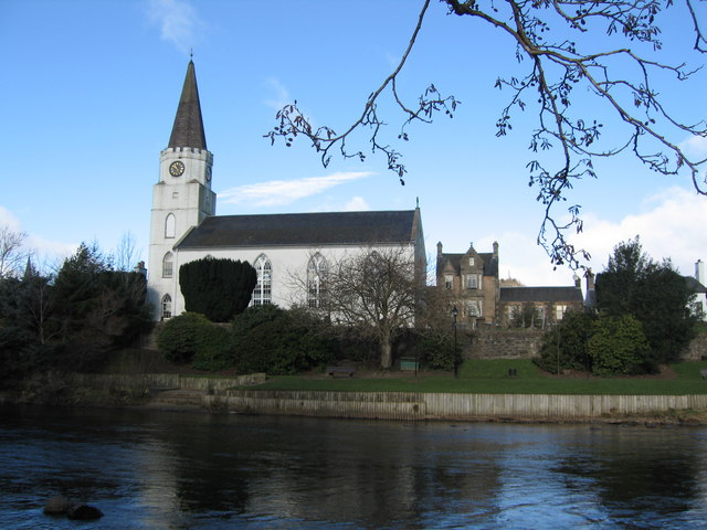 White Kirk, Comrie River Earn in foreground. This church is now Comrie Community Centre.